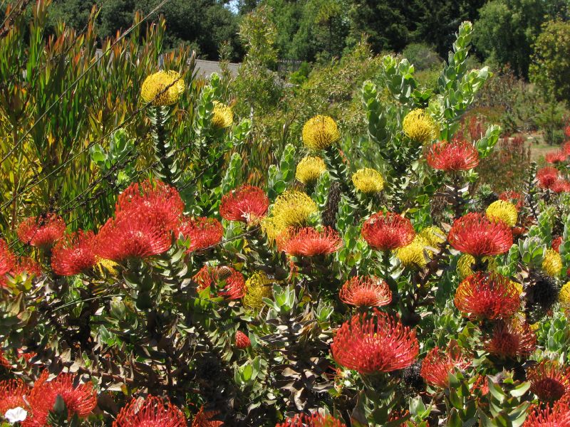 Red and Yellow Proteaceae, UCSC Arboretum